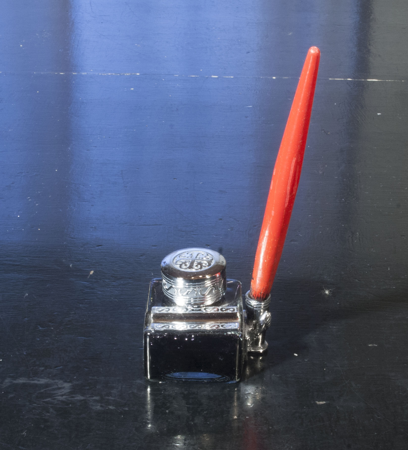 Modern inkwell.